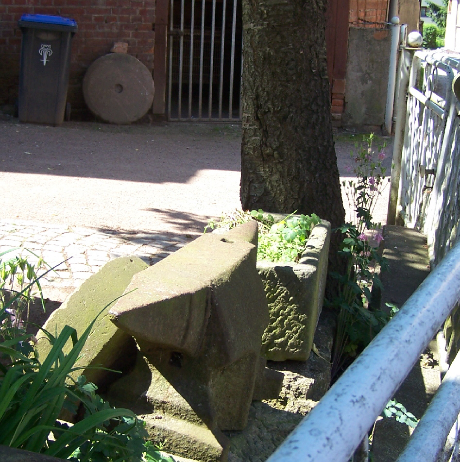 Millstones of a Schleifkotte - a special mill to sharp knife blades. In front a anvil.